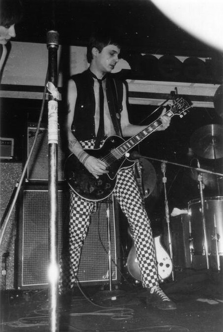 Jammin Jerome